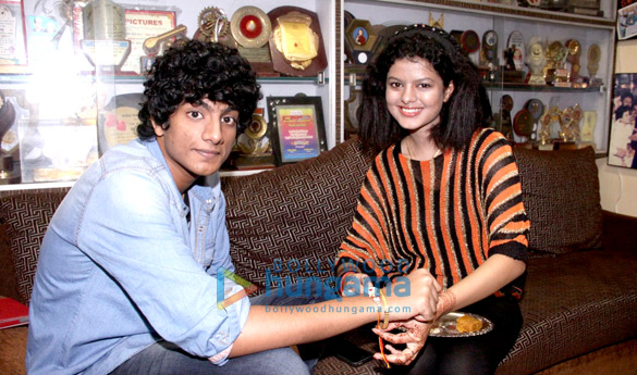 Palak Muchhal tying Rakhi to her brother Palash Muchhal on Raksha Bandhan 2013